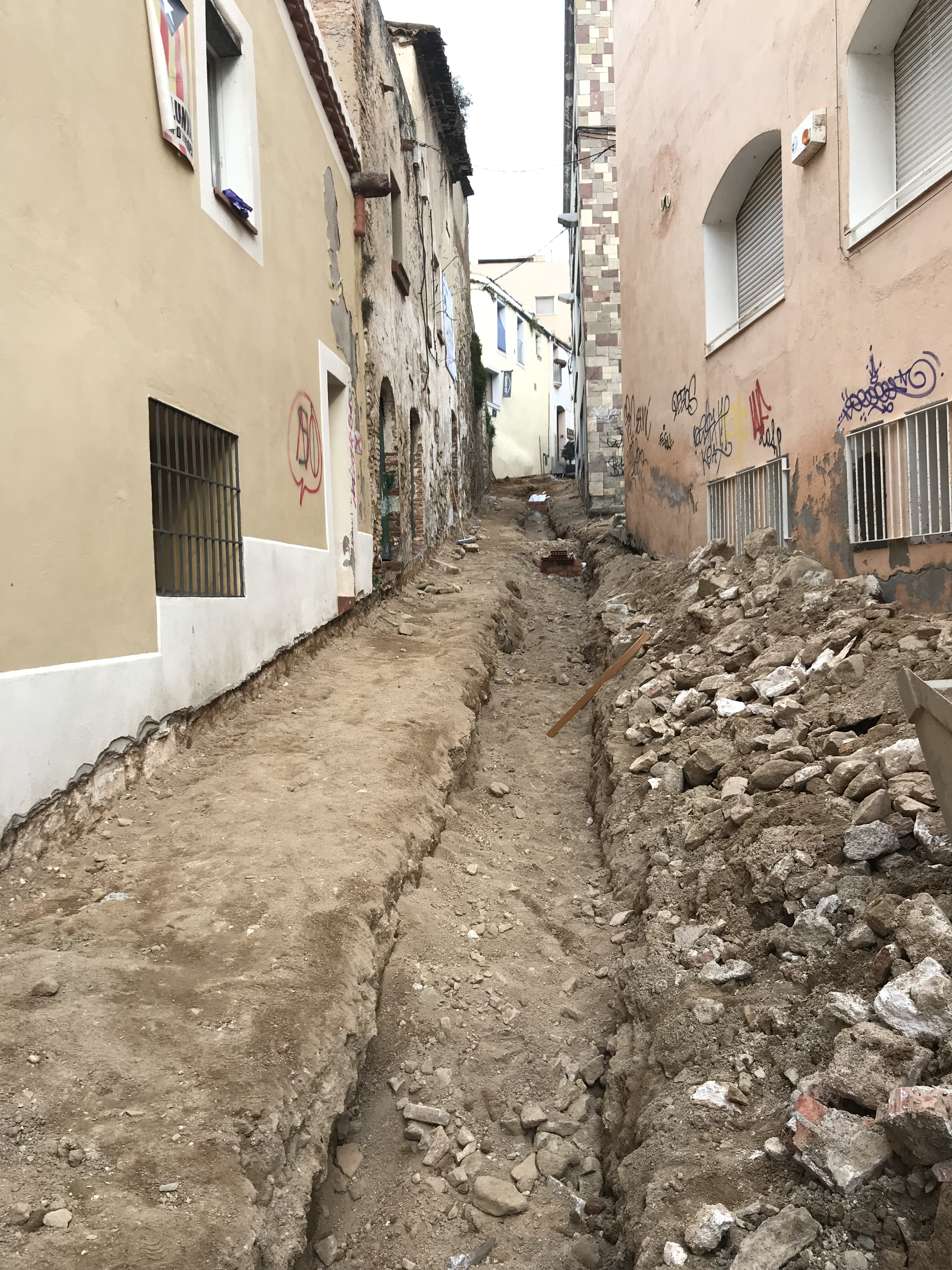 Obres de reforma del carrer de la Costa. És un dels més antics del nucli històric de Badalona, singular per la seva forma corbada com el llom d'un llibre o de mitja canya. El 2018, després de molts anys en estat de degradació es va reformar el carrer, desbrossant tot el paviment anterior (tret de les vorades de pedra de Montjuïc) i, després, restaurant-lo mantenint la seva forma tradicional.